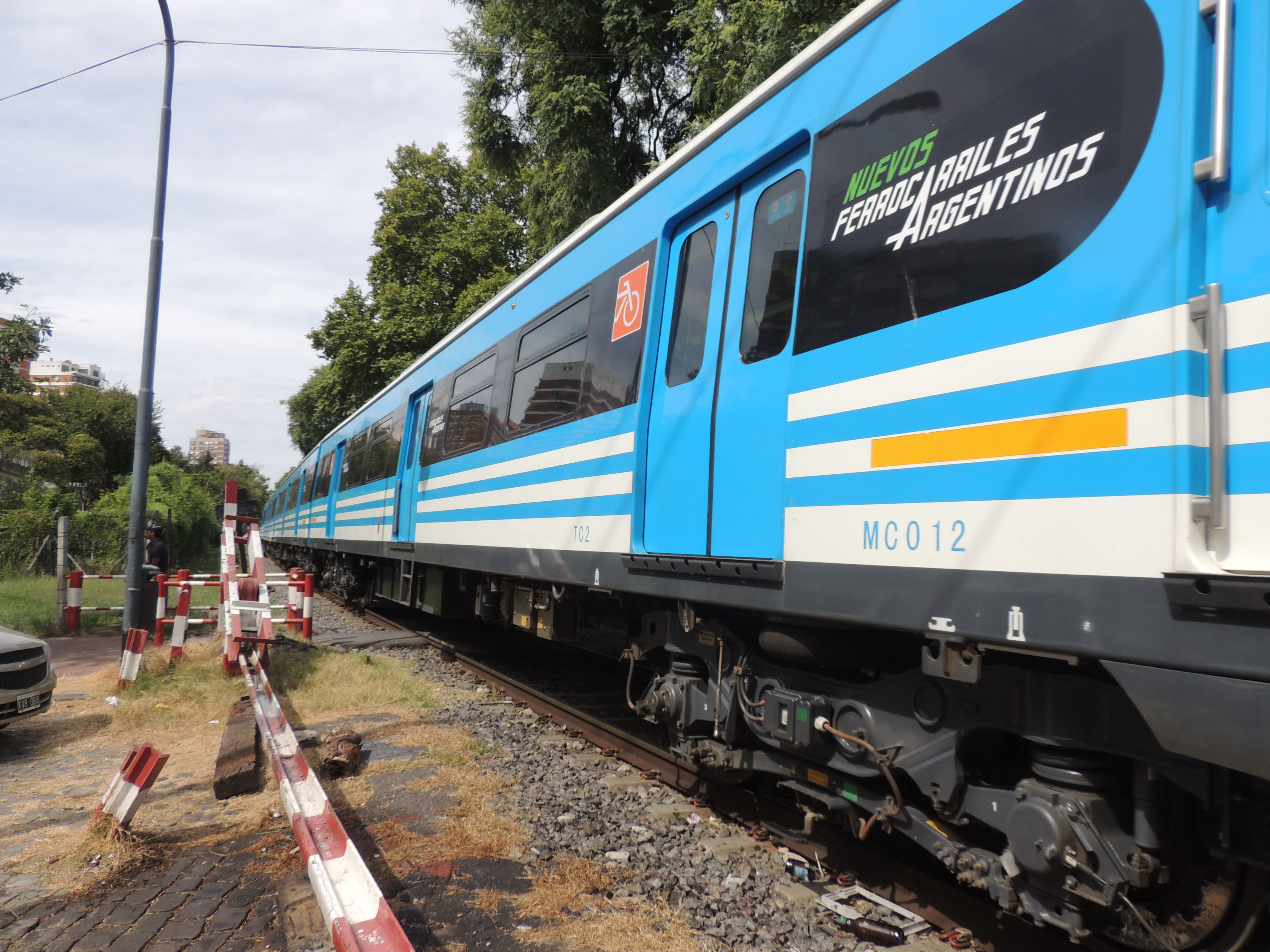 A CSR EMU arrving to the Belgrano R train station, towards Retiro.